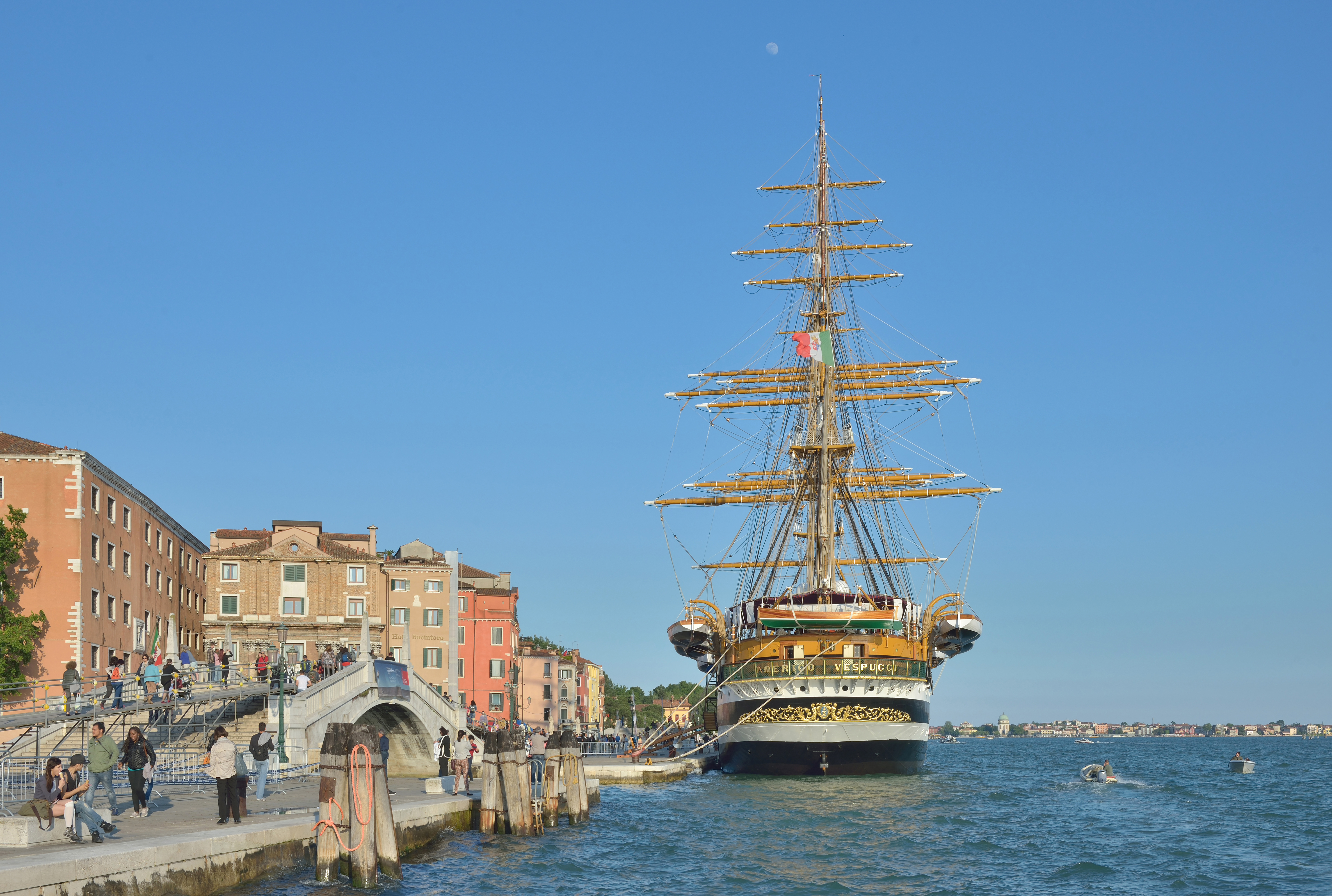 The Italian training ship Amerigo Vespucci near the Museo storico navale naval history museum on the Riva San Biasio in Venice.